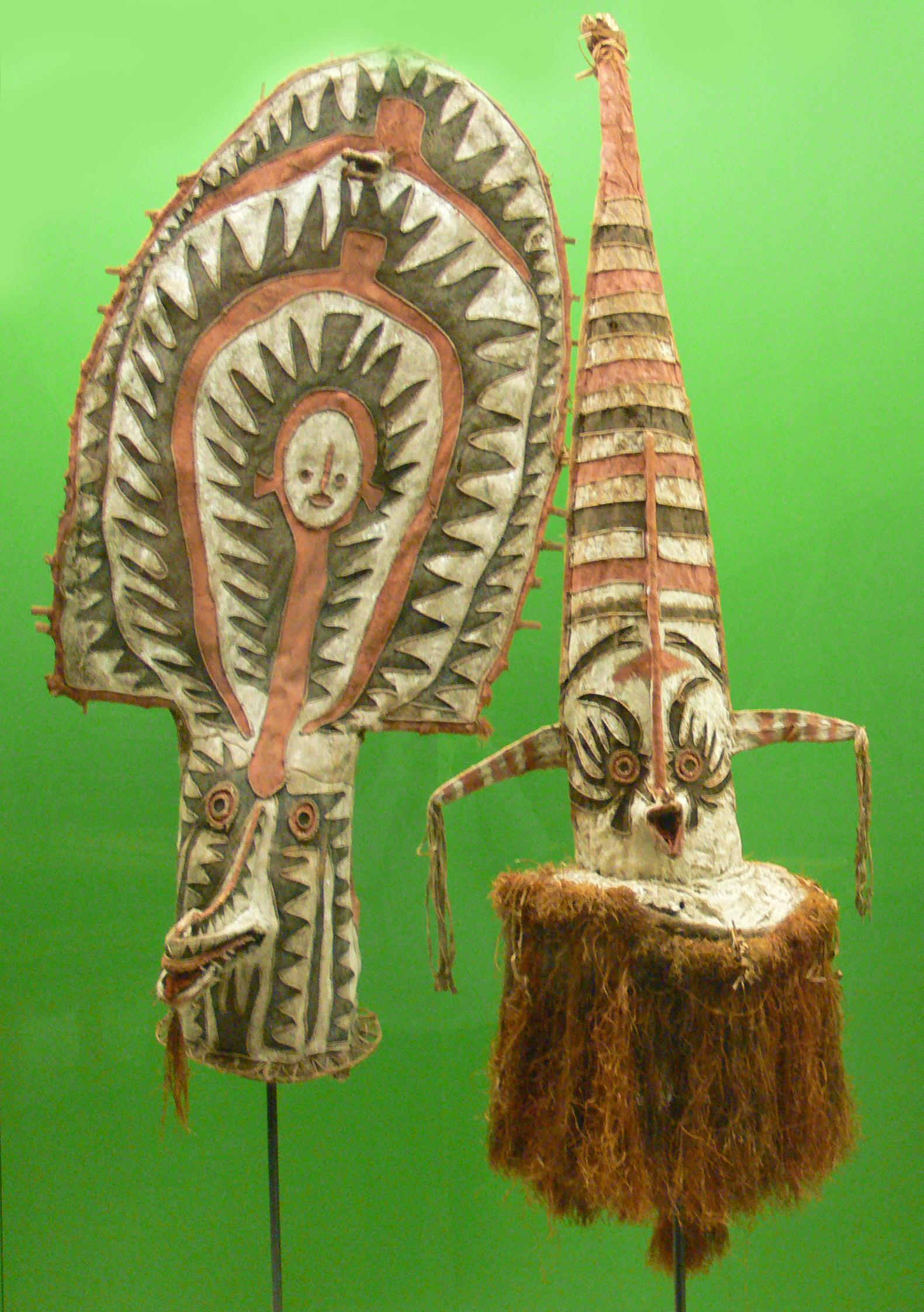 Two masks (from New Caledonia or New Guinea, label still needs to be added) Collection: Ethnological Museum, Berlin-Dahlem